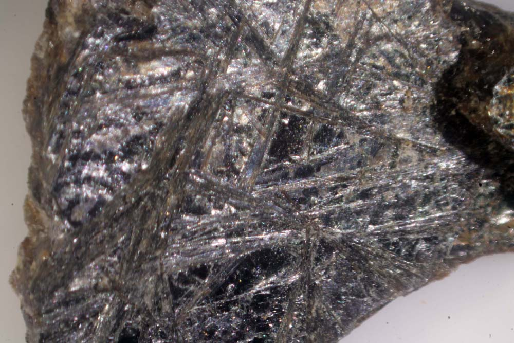 Needles of ferro-gedrite on cleavage plane (001) of sekaninaite. Ferrogedrite is a product of weathering and decay of sekaninaite. From: Dolní Bory, Křižanov, Žďár nad Sázavou, Vysočina Region, Czech Republic.